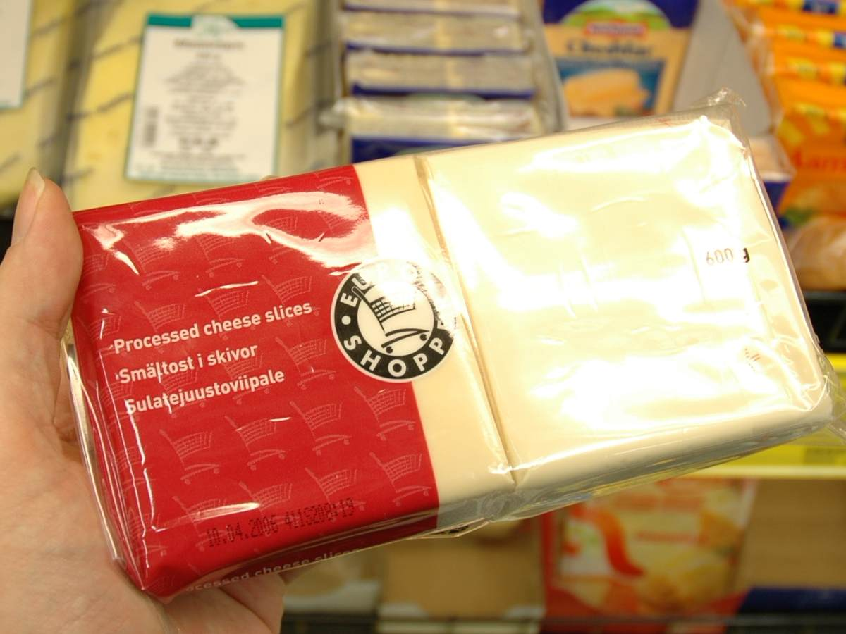 Processed cheese slices individually wrapped in plastic.